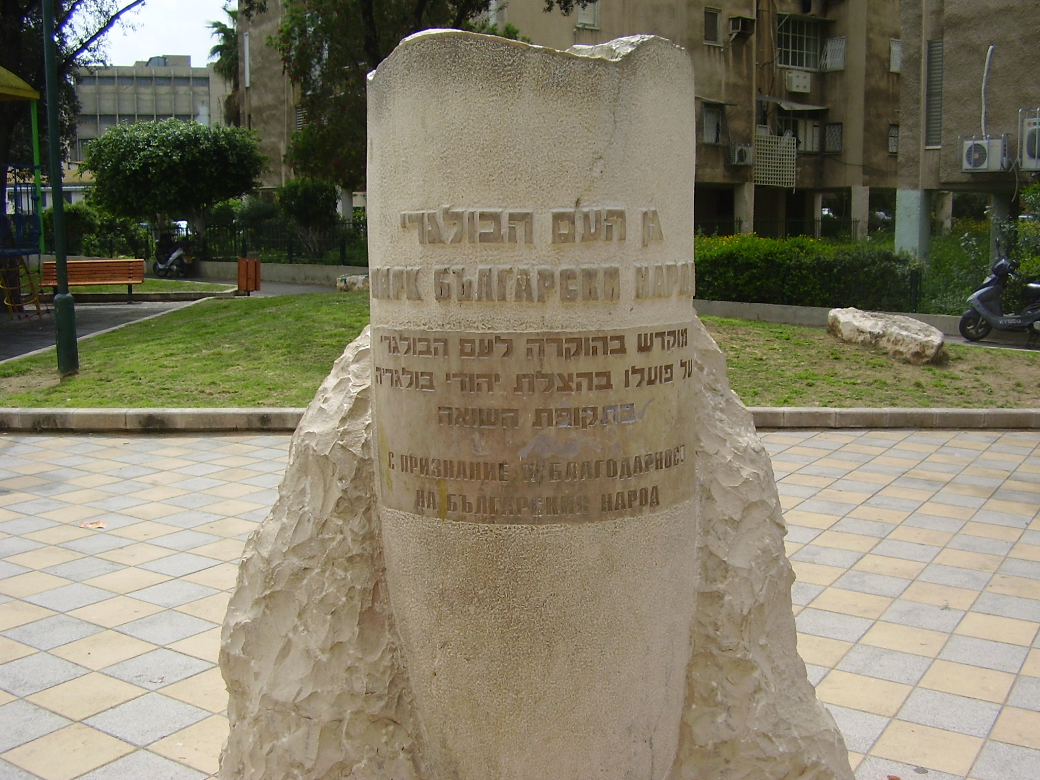 bulgarian people garden, tel aviv